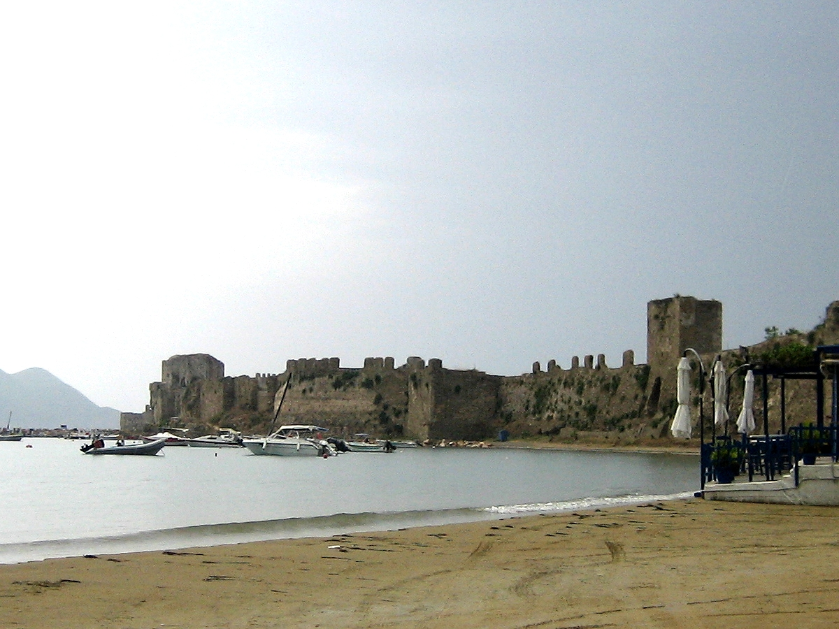 The castle of Methoni in Greece.